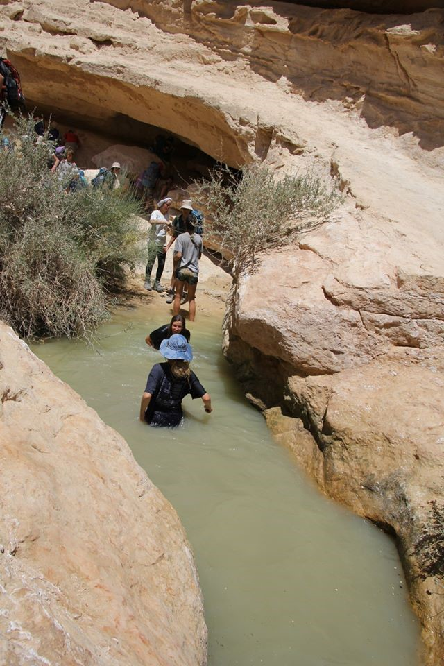 גב מים בנחל